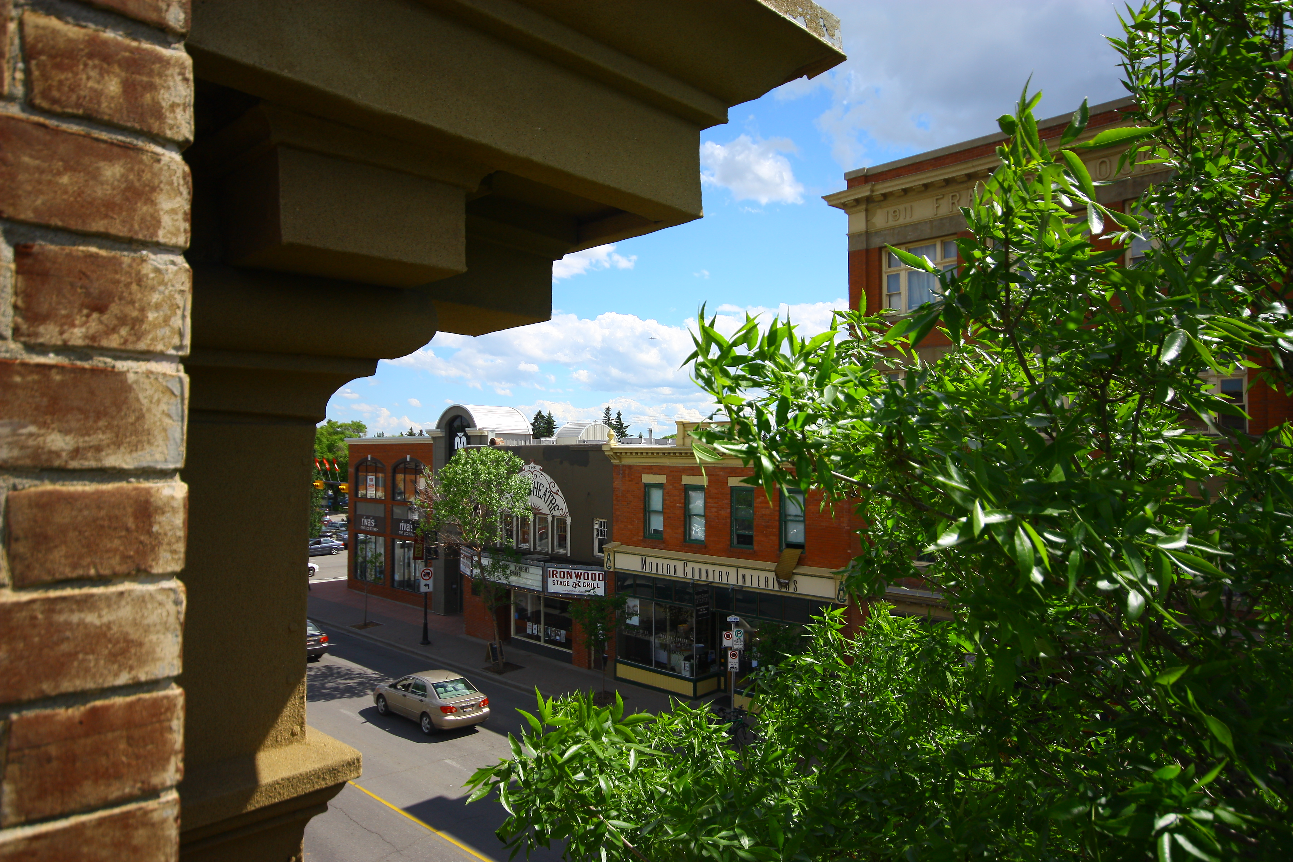 Looking down upon 9th Avenue in Inglewood, toward the 12th Street intersection.